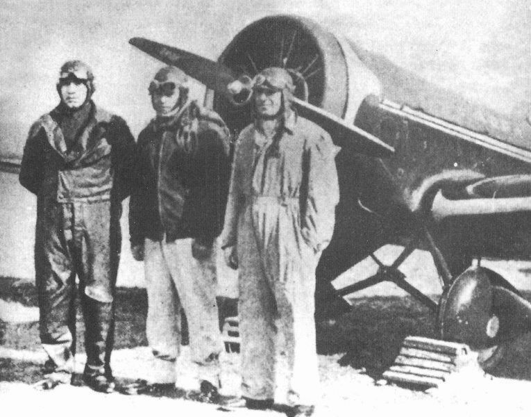 Petre Ivanovici, Mihail Pantazi, Maximilian "Max" Manolescu, the "Red Devils" aerobatic team.